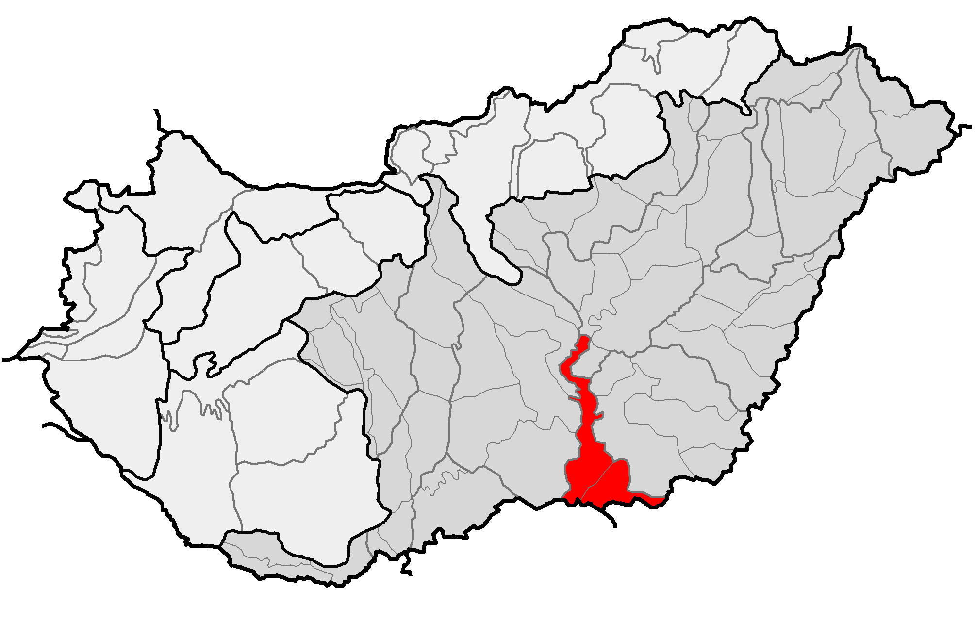 Location of geographical mesoregion of Alsó-Tisza-vidék (red) and macroregion of Alföld (gray) within subdivisions of Hungary.